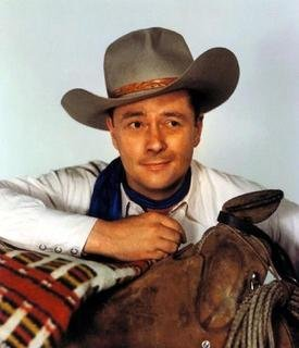 This is a studio photo produced as promotional photos for public appearances.